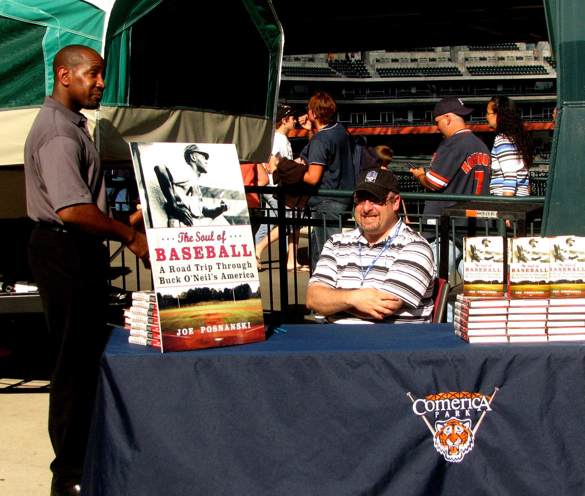 "Kansas City Starcolumnist Joe Posnanski, the author of The Soul of Baseball, does an autograph session before the July 20 Tigers-Royals game."